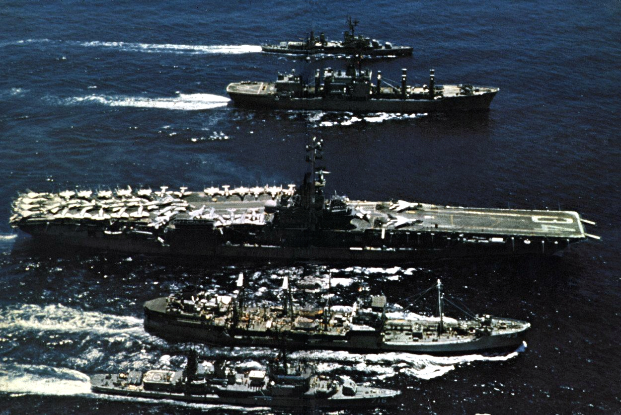 The U.S. Navy aircraft carrier USS Oriskany (CVA-34) and two destroyers during an underway replenishment off Vietnam, in May 1969. The Oriskany, with assigned Carrier Air Wing 19 (CVW-19), was deployed to Vietnam from 16 April to 17 November 1969. The follwoing ships are visible (bottom to top): USS Wiltsie (DD-716), USS Tappahannock (AO-43), USS Oriskany (CVA-34), USS Mars (AFS-1), and USS Perkins (DD-877).